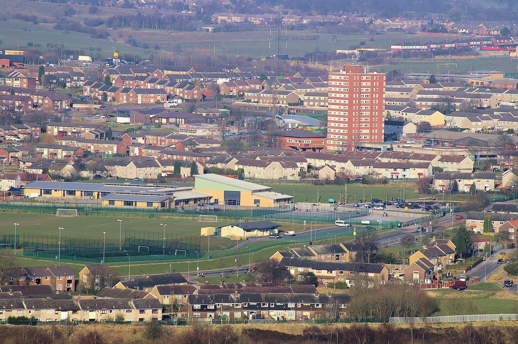 A view over Hattersley, in Tameside, Greater Manchester, England. Seen From Werneth Low